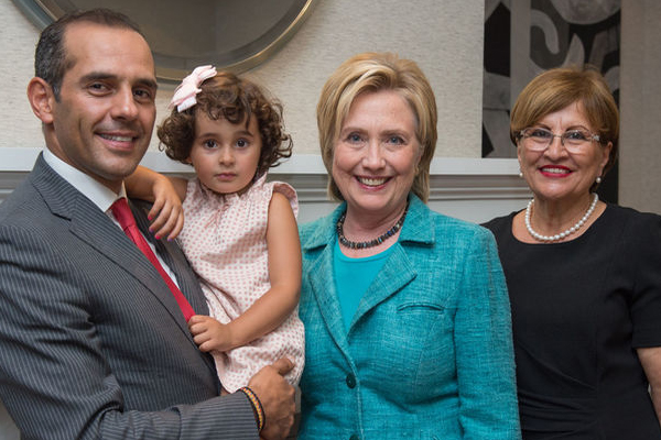 Juan Verde with his Family and Hillary Clinton